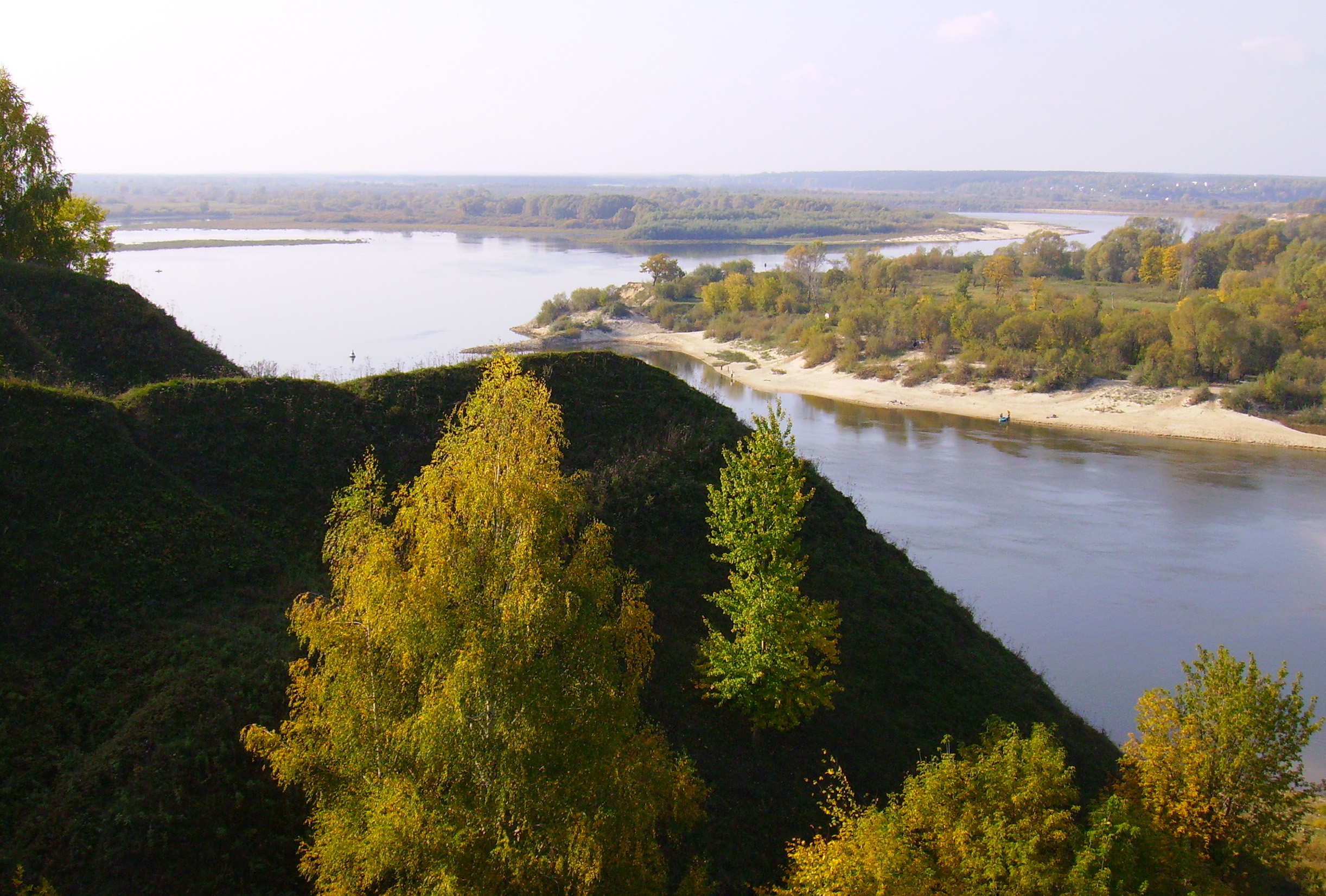 The Oka River Bend